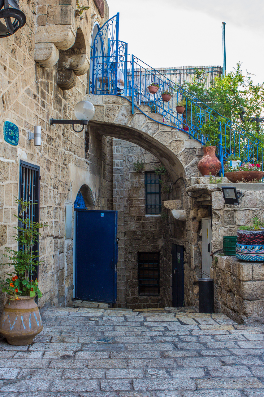 Old City of Jaffa, Kalamata restaurant, Kikar Kdumim 10.